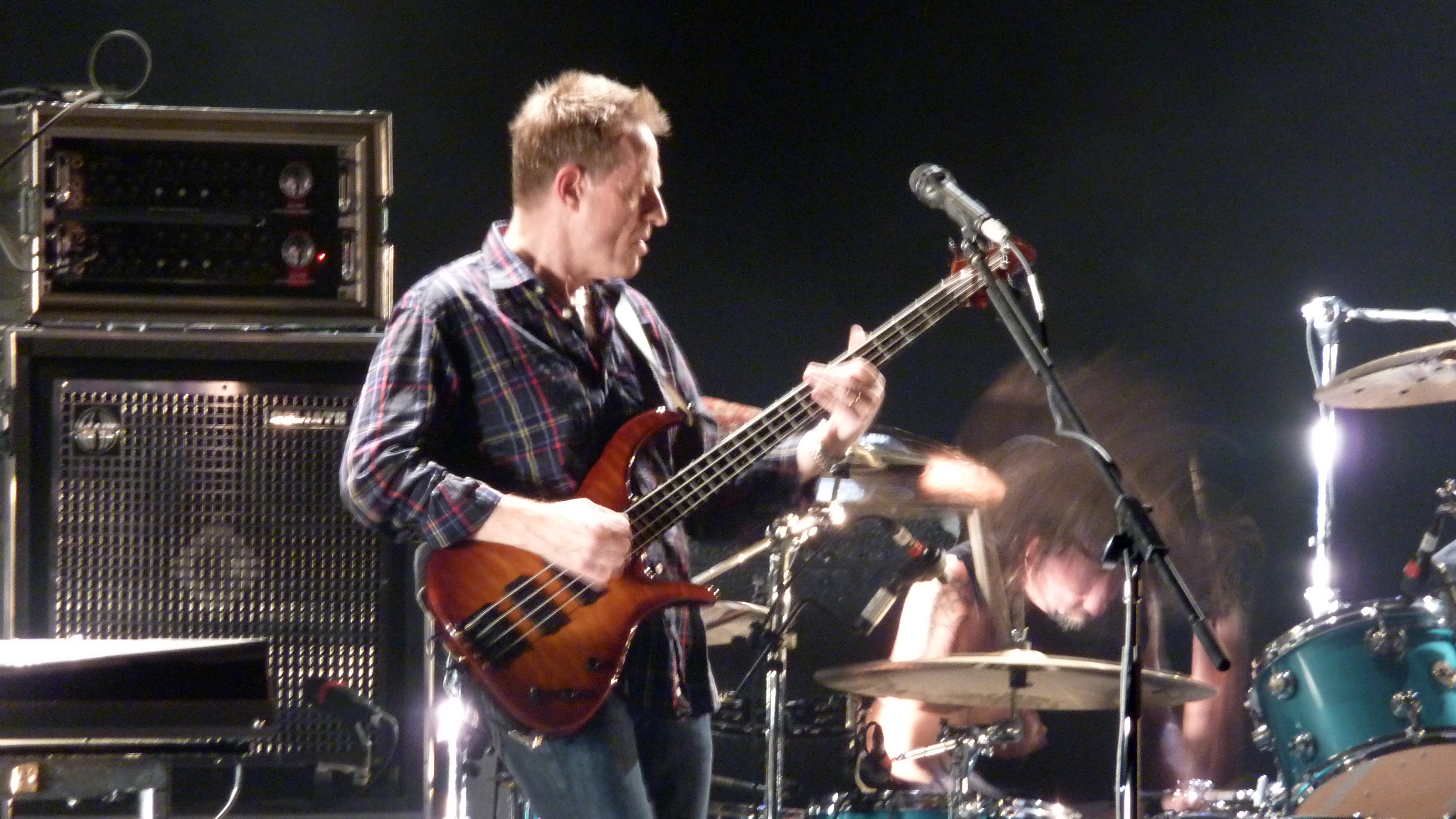 John Paul Jones (musician) playing bass in Them Crooked Vultures